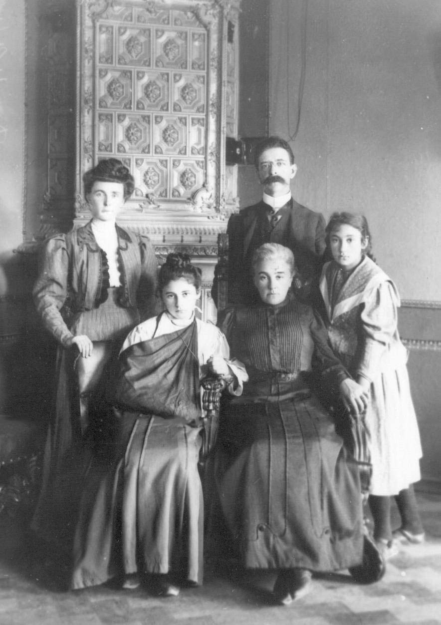 Hertsenstein's family immediately after his murder (oldest daughter was wounded by the killer) with Grigoriy Iollos, another Duma mamber who was killed later.